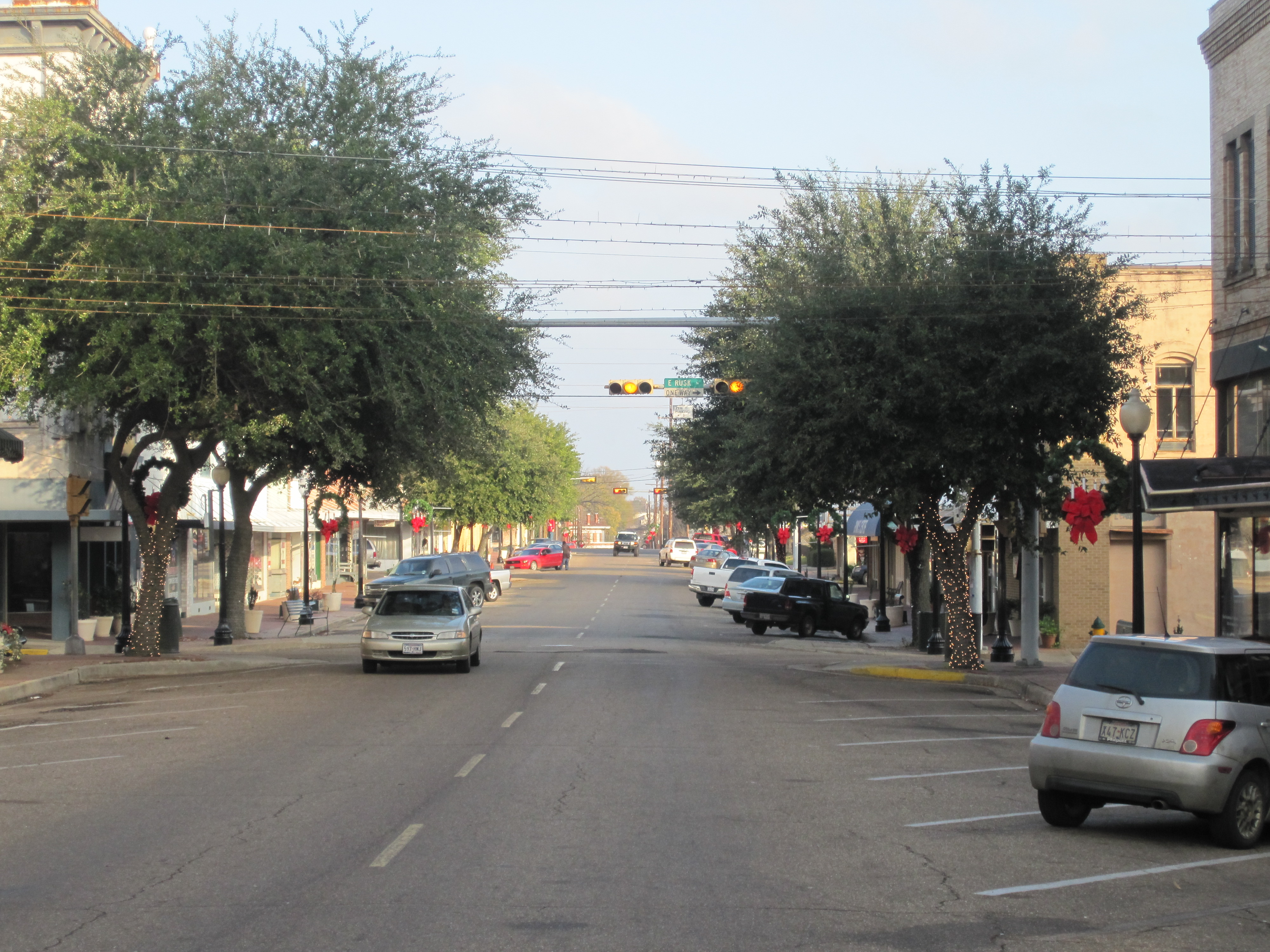 Downtown Marshall, Texas, near the former Harrison County courthouse